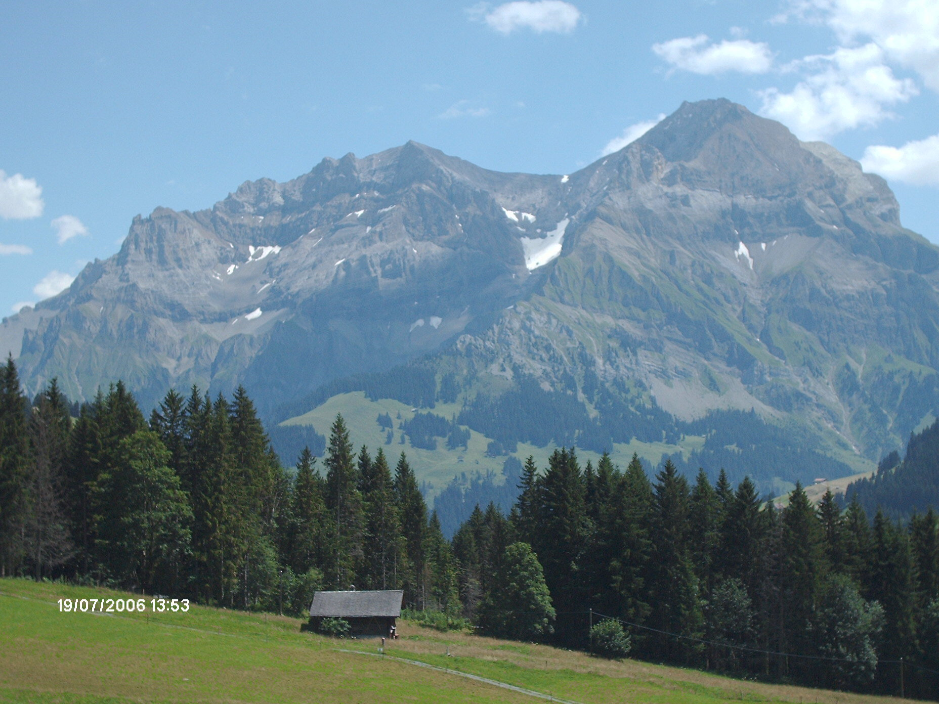 Lohner mountain near Adelboden seen from west. Photo taken by Irmgard on July 19, 2006